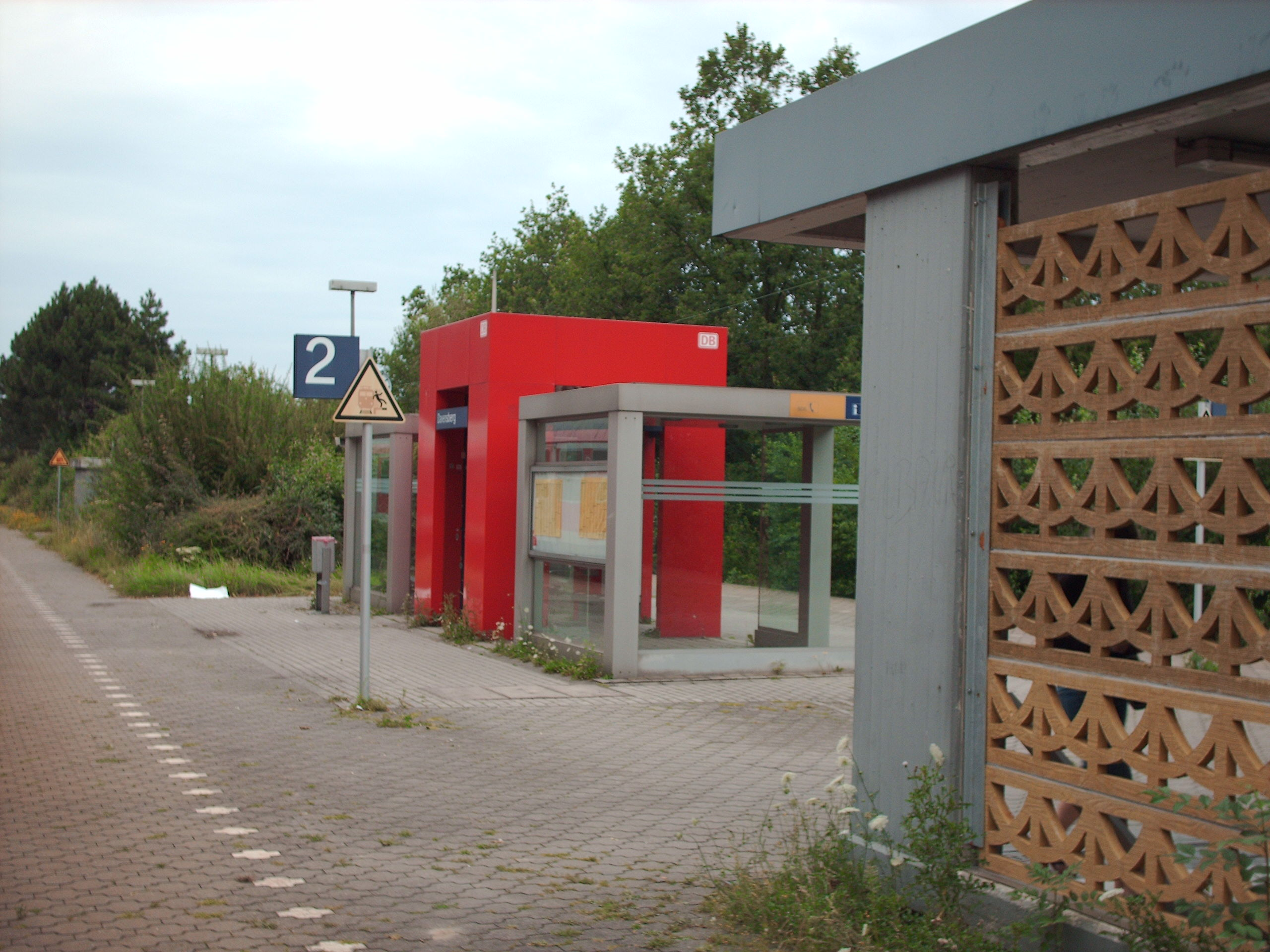 Davensberg station, Ascheberg, Germany check usage